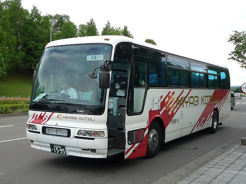 Miyakobus Highwaybus Furukawa(Osaki) - Sendai Izumi Premium Outlet